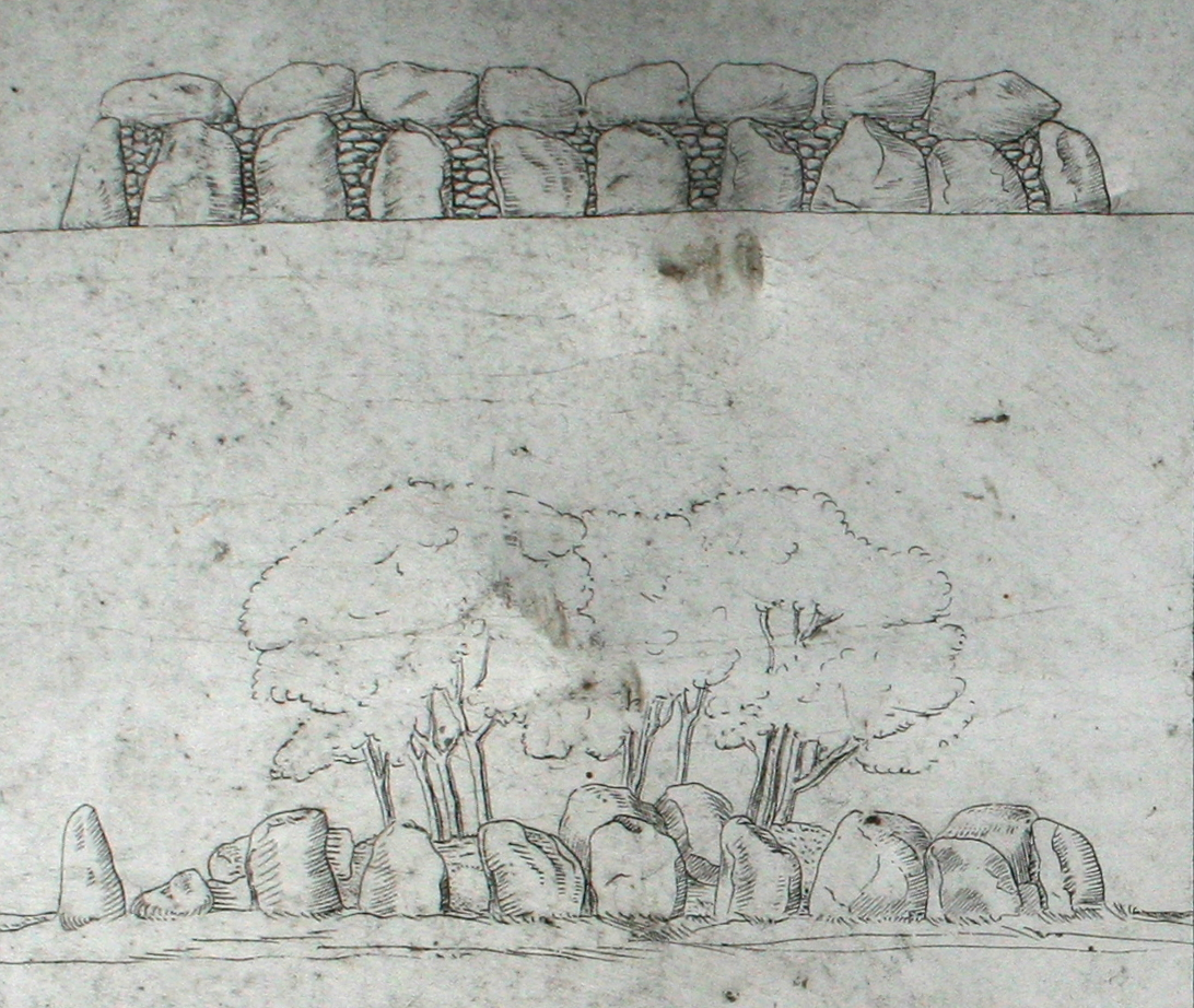 Megalithic tomb at Jeggen